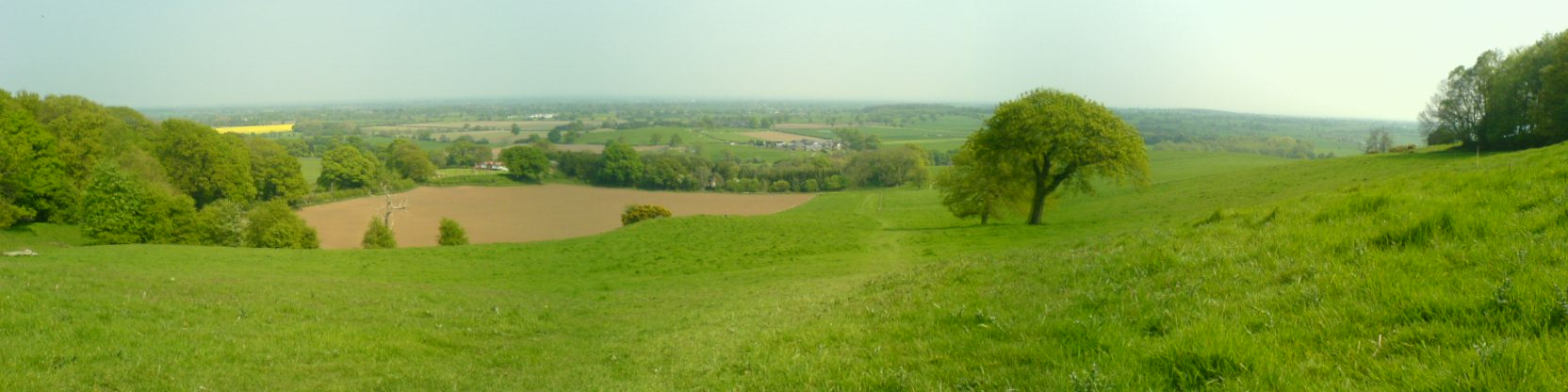 Panorama photo showing part of the Cheshire Plain looking from the Mid-Cheshire Ridge.